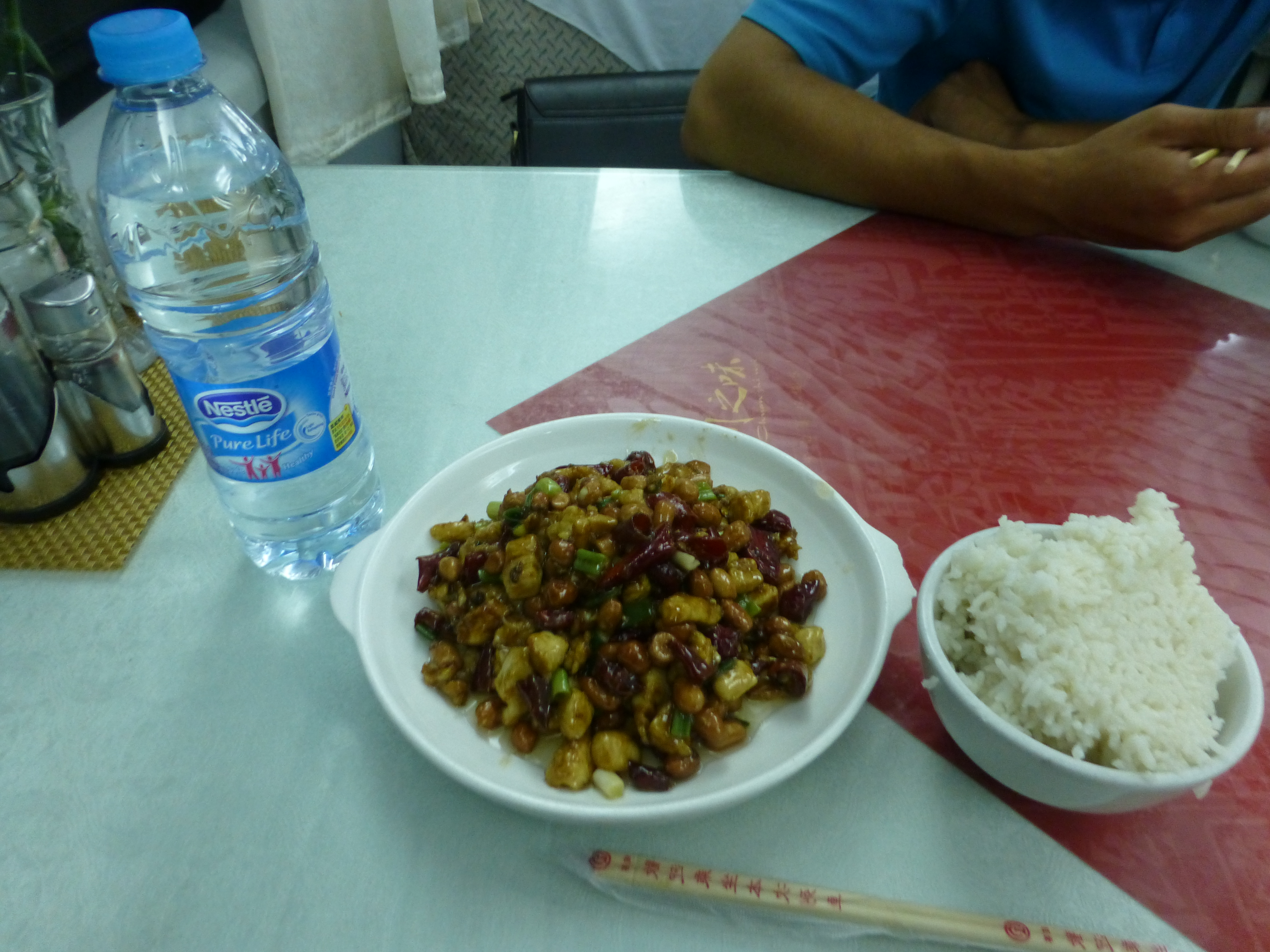 Kung Pao chicken in K817 dining car.